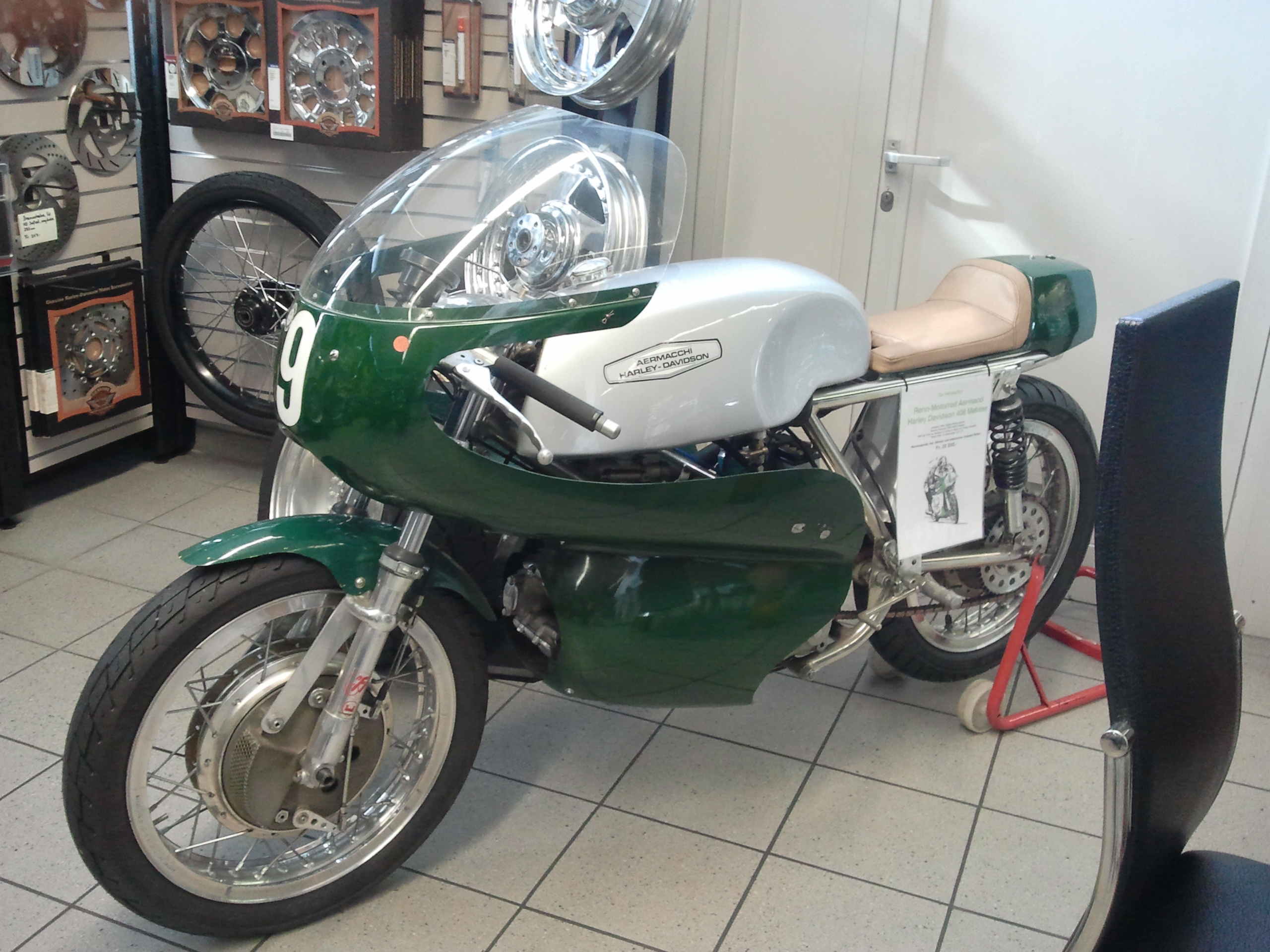 This Aermacchi Harley-Davidson works racing motorbike (circa 1968), was owned by Urs Weder (racer) and was in 2013 in his business (Moto Sport Weder Urs) in Au SG in Switzerland